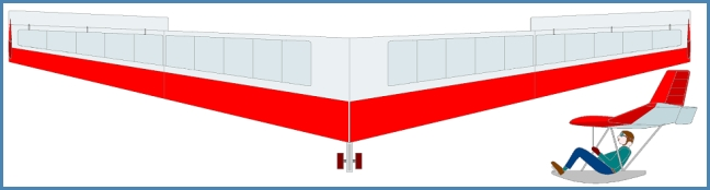 Mitchell B10 footlaunch Glider